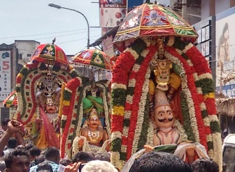 Thanjavurkarudasevai தஞ்சாவூர் கருடசேவை